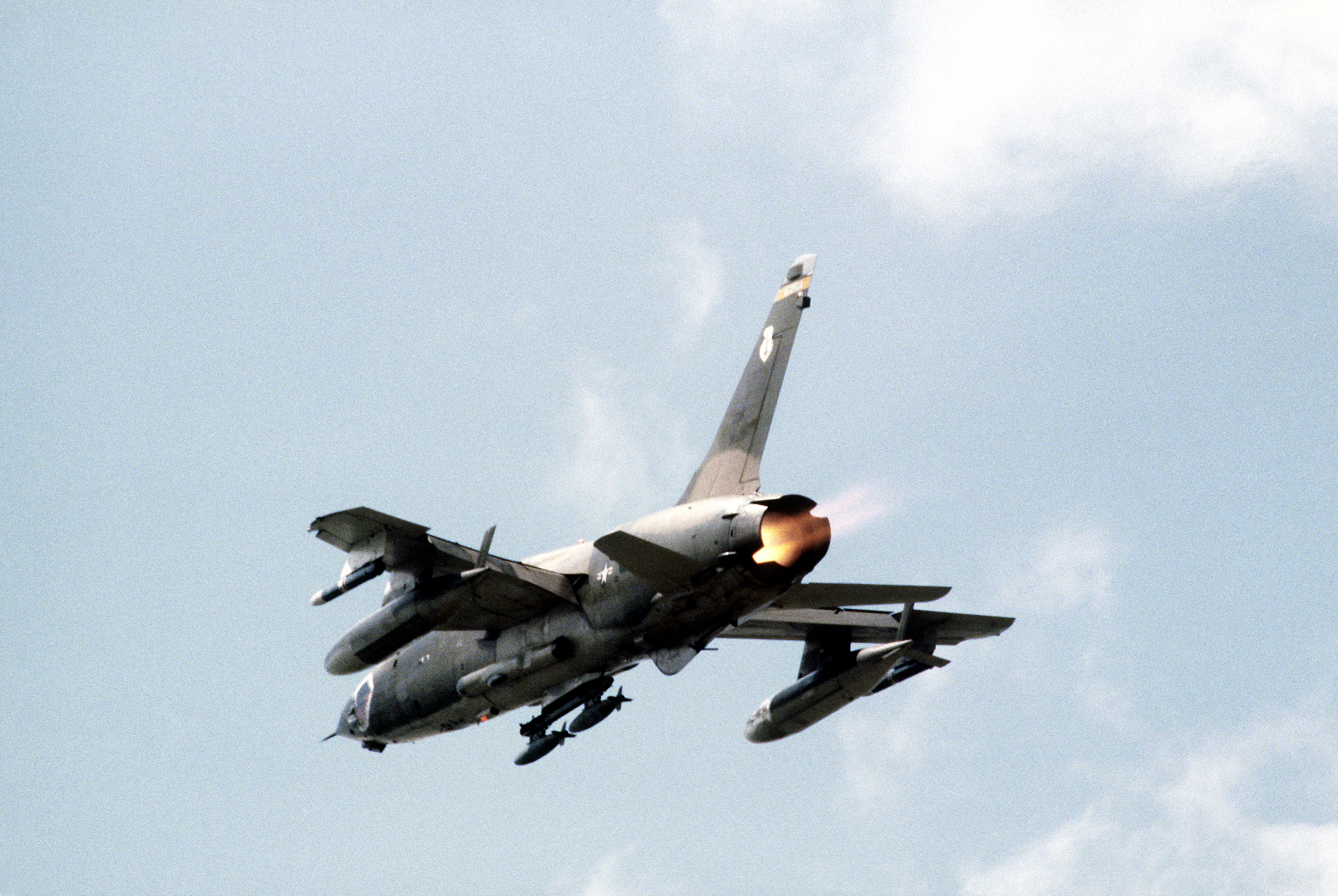 Left rear view of an F-105G Thunderchief aircraft, carrying 500-lb. Mark 82 bombs, in flight during exercise Gangbuster XI. The aircraft is assigned to the 128th Tactical Fighter Squadron, 116th Tactical Fighter Wing, Georgia Air National Guard, at Steward Field, Savannah, Georgia (USA)